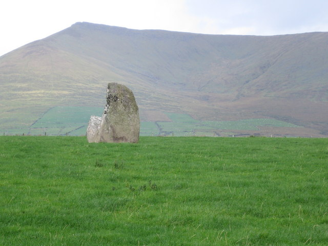 Graigue Standing Stone This Standing Stone is in a field on the north-west side of the road, and stands about 3.7 metres high. A second stone, or a split off section of the first one, lies behind it in this view, and at an angle of about 45 degrees. The hill in the distance is Gowlanebeg in grid square Q5204.